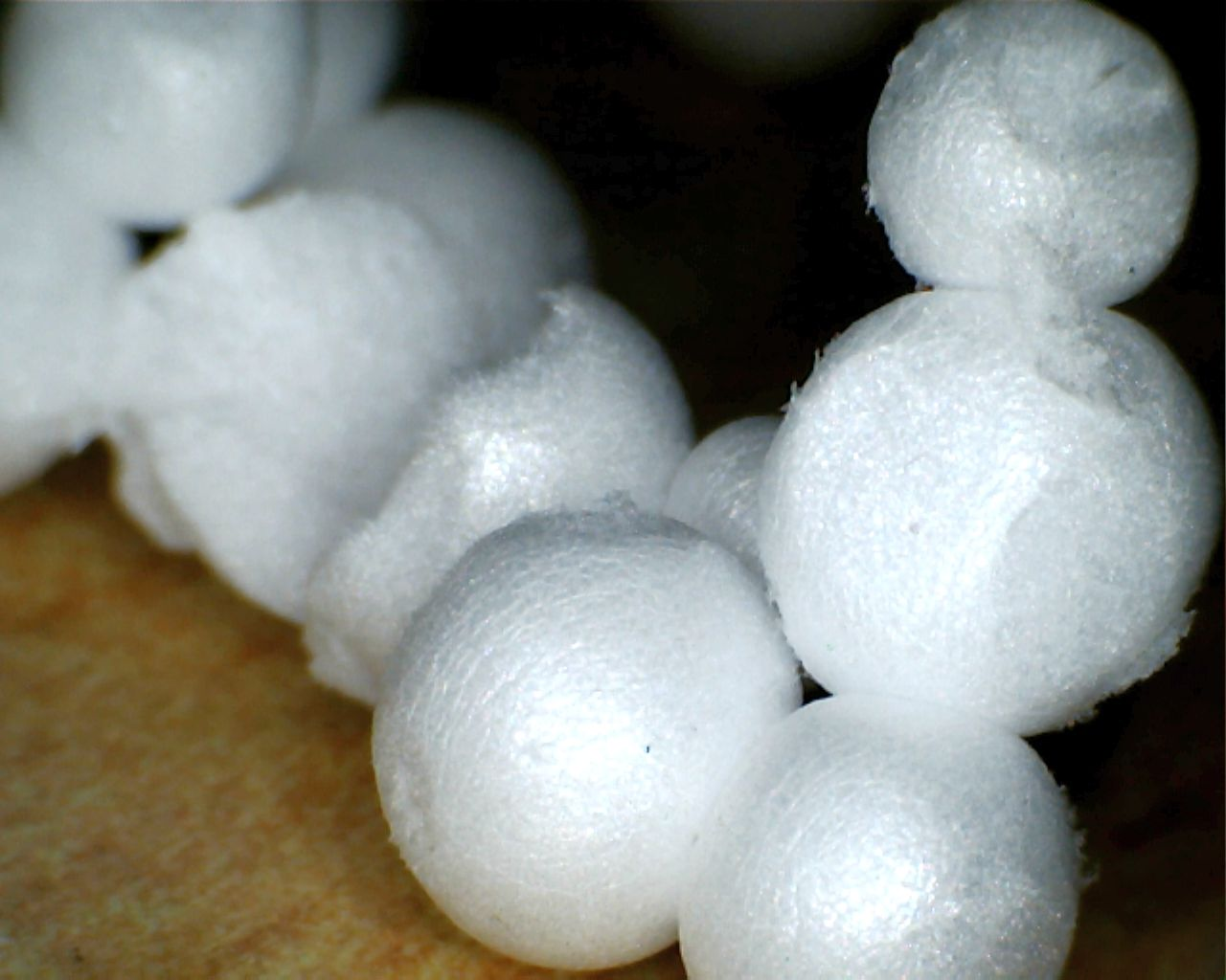 Styrofoam balls.